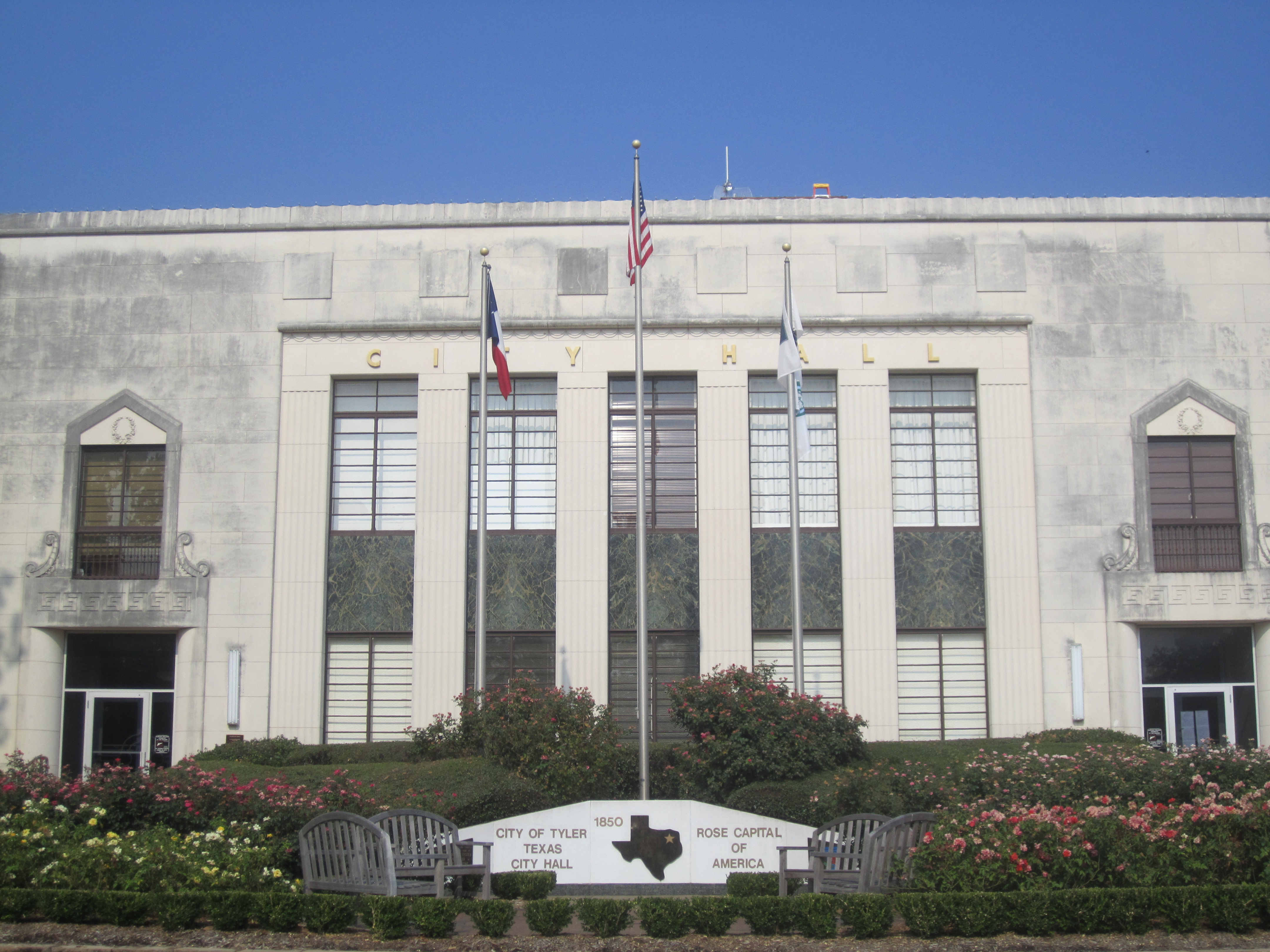 I took photo with Canon camera in Tyler, TX.